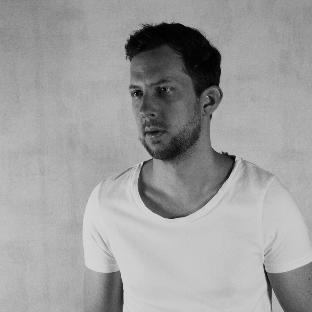 Christoph Tisch in 2019